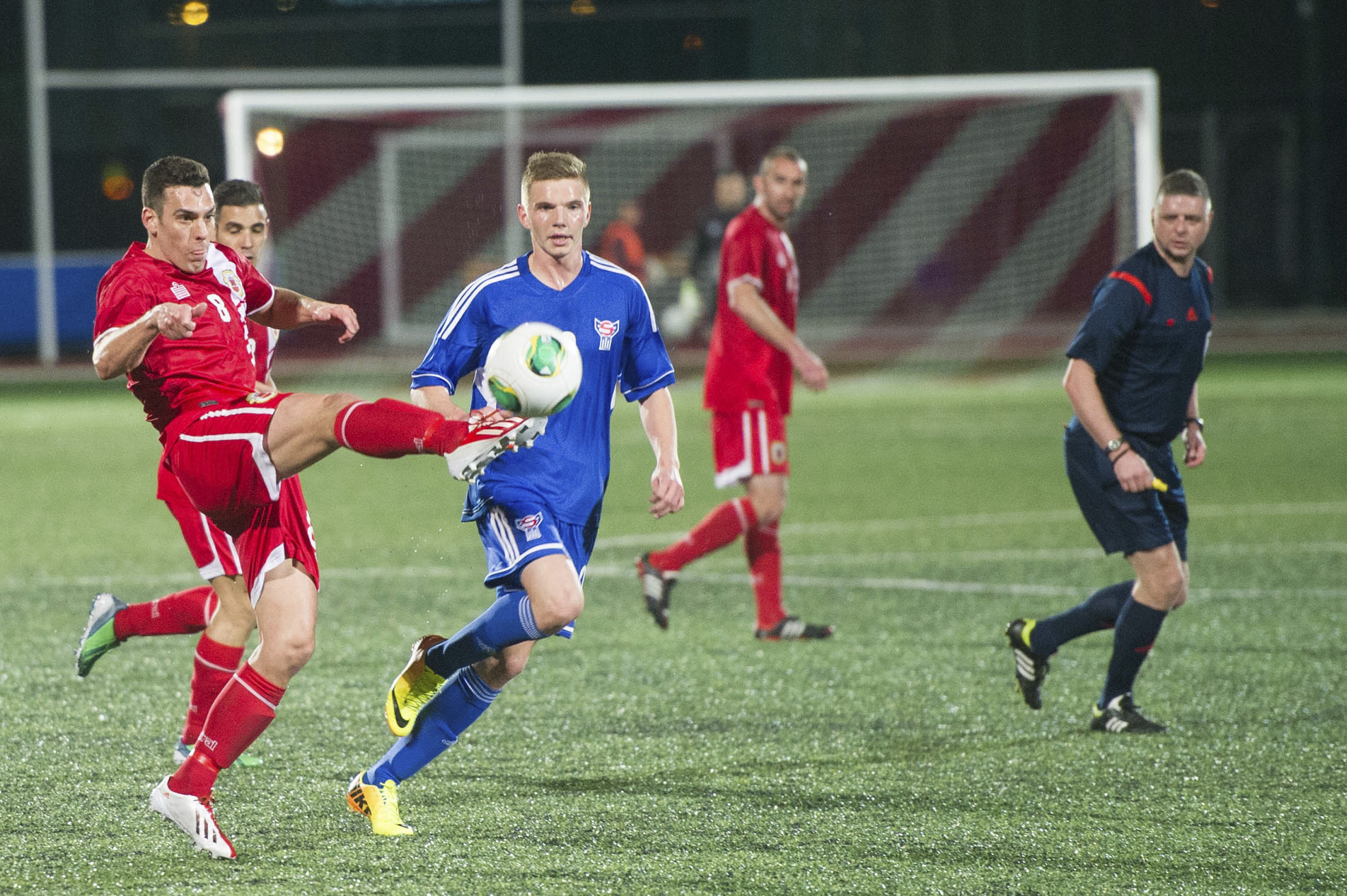 Gibraltar v. Faroe Islands friendly football match at the Victoria Stadium. Daniel Duarte in red.